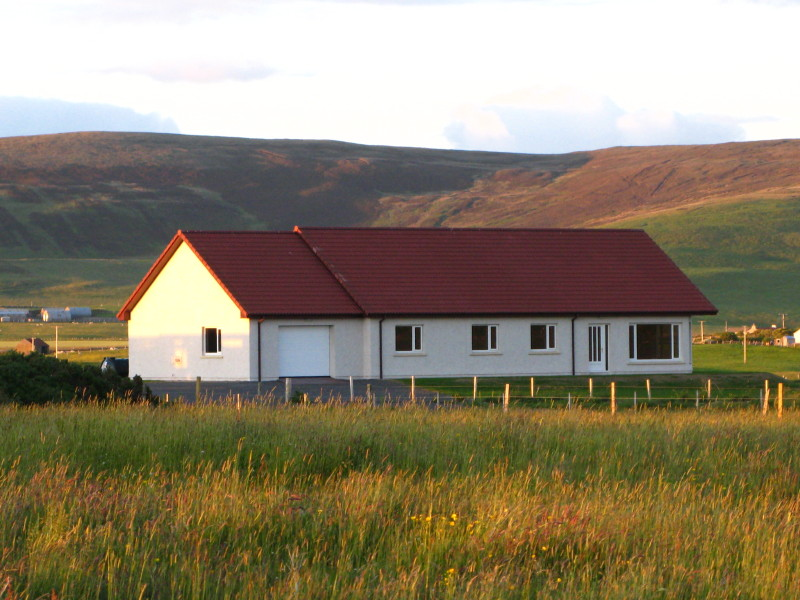 grimestone park harray 4 bedroom executive home on sale more details at orkneypropertysalescom